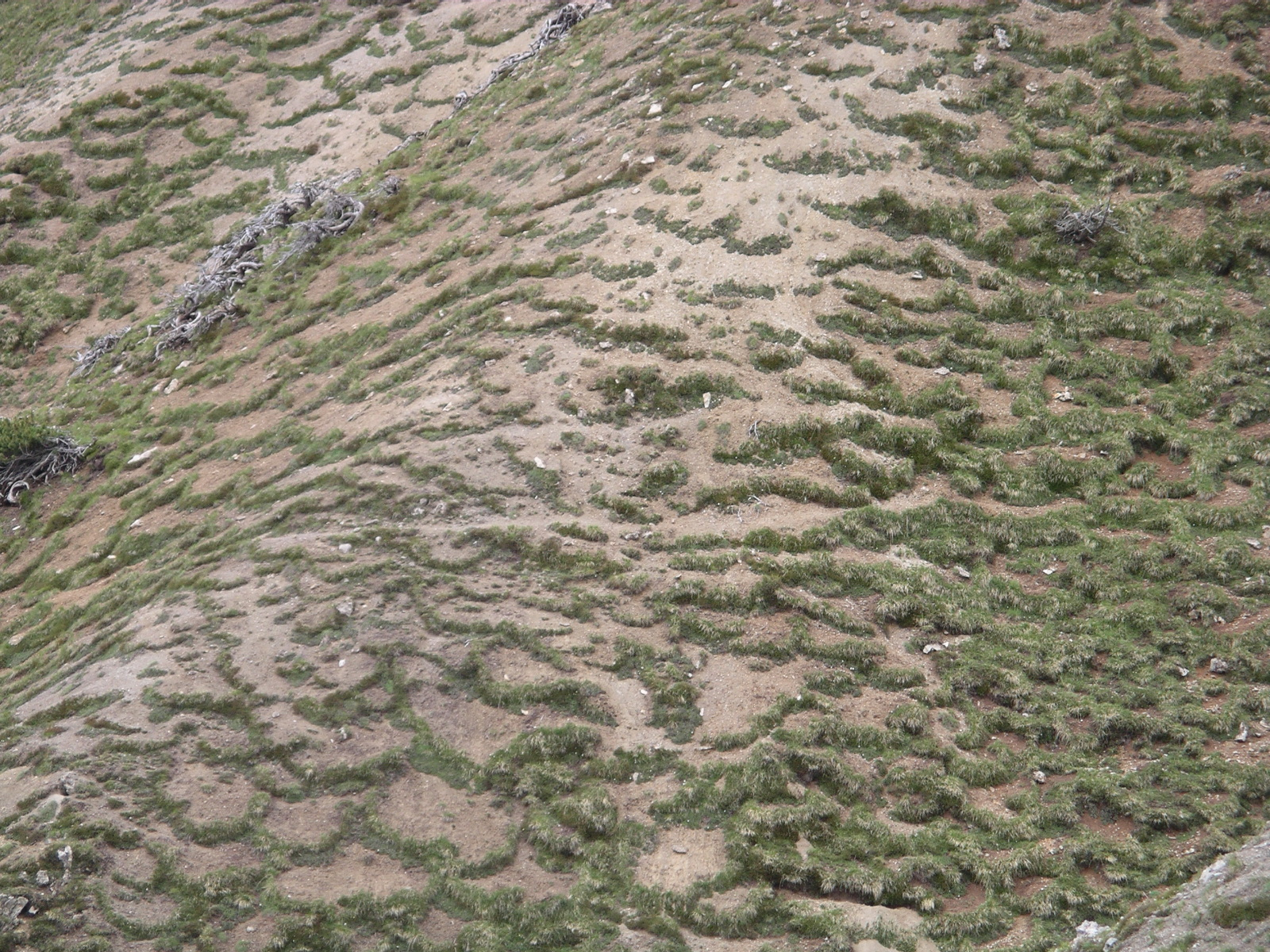 Garland-like solifluction form in the Swiss National Park at an altitude of approx. 2'300m.